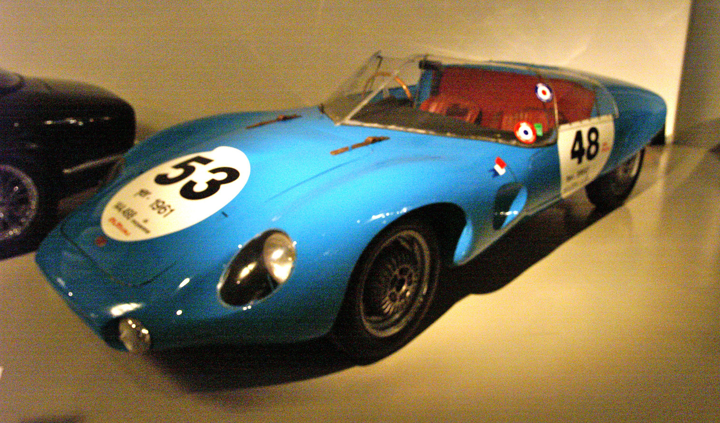 DB Panhard HBR 4 at Le Musée des 24 Heures. As #48, this 702cc car finished 15th in 1960 and won the Index of Performance (Armagnac-Laureau). The next year, with #53, it came in 19th (at an average speed of 144.049km/h) and again won the Index of Performance, with Laureau and Bouharde at the wheel. With a different body, this may have been the chassis underpinning #46, which came in 9th in 1959.